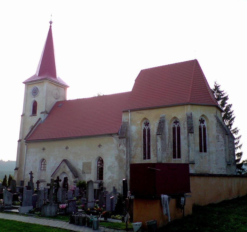 Kostelni Radoun - church St. Vitus